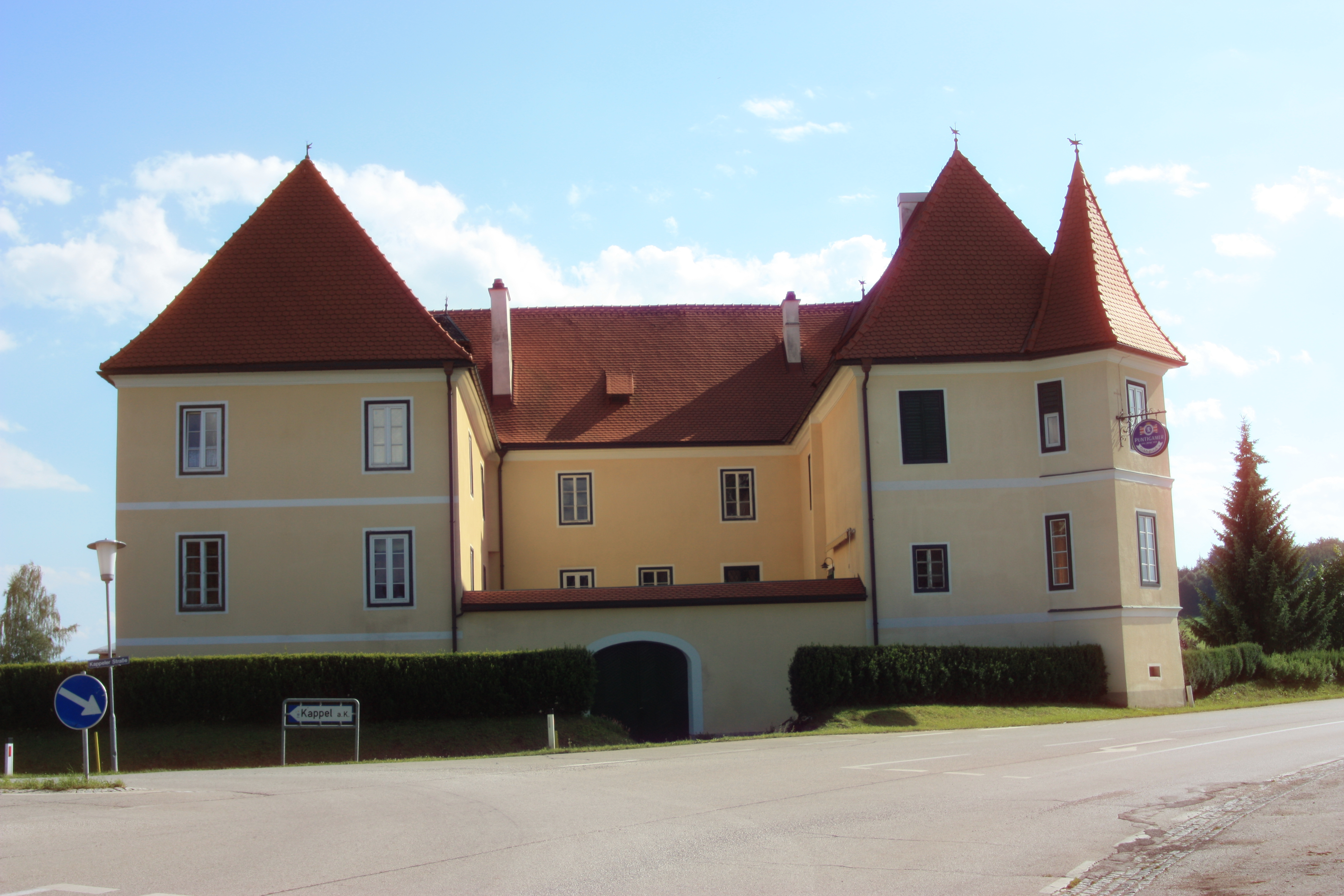 Silberegg castle Locality:Silberegg Community:Kappel am Krappfeld District:Sankt Veit an der Glan State:Carinthia Country:Austria